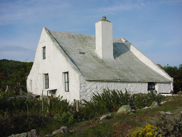 Lockley House. 1st UK bird observatory, famously rebuilt and lived in by naturalist Lockley